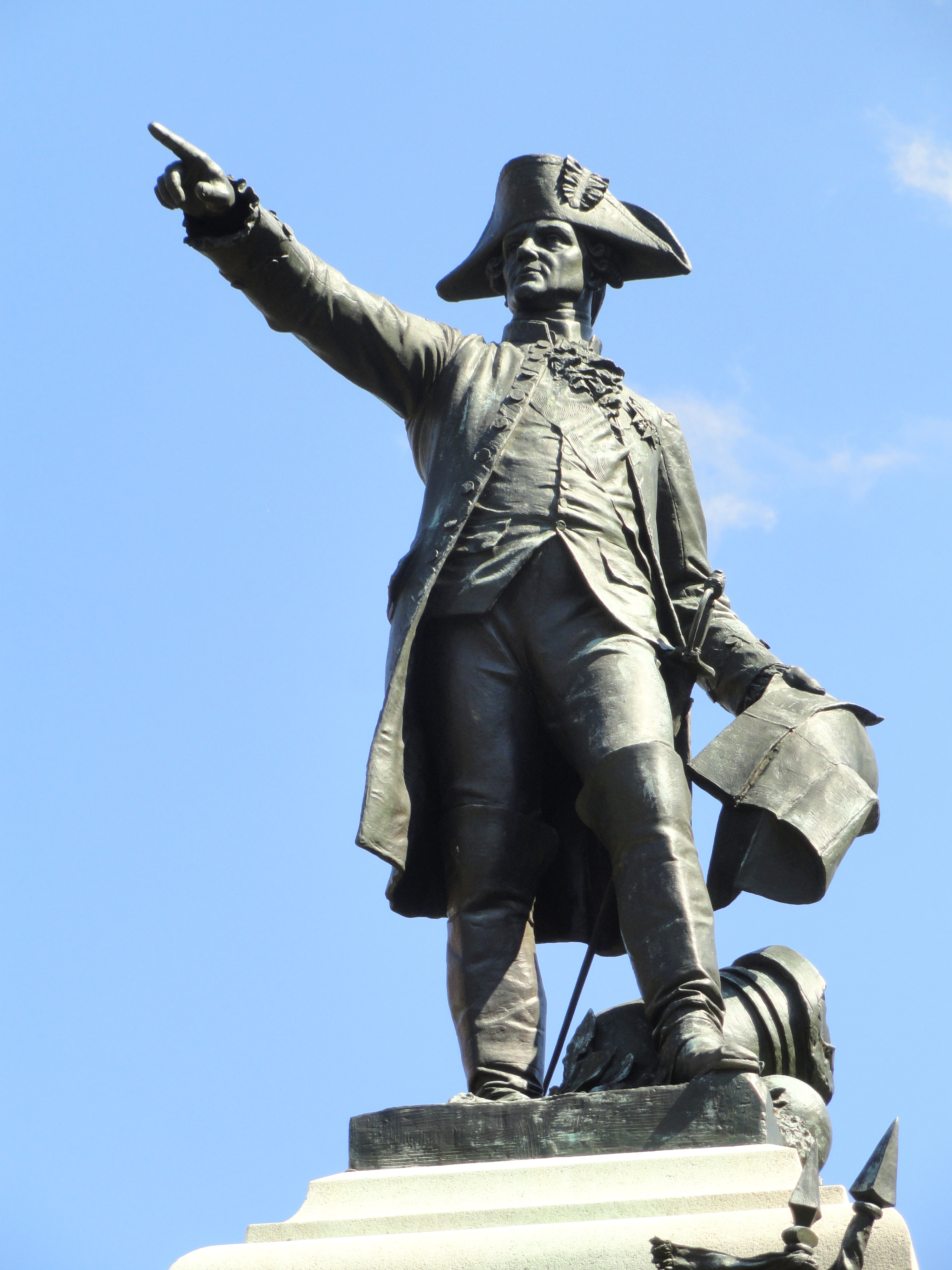 General Comte de Rochambeau memorial, Lafayette Square, Washington, D.C., USA. Sculptor: J. J. Fernand Hamar (1869-1943). Dedicated 1902. This artwork is now in the public domain because it was first published in the United States before 1923.